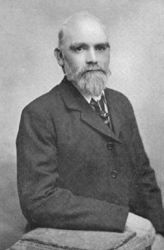 John Frederick Keeble (1855-1939), English chess problemist from Norwich.